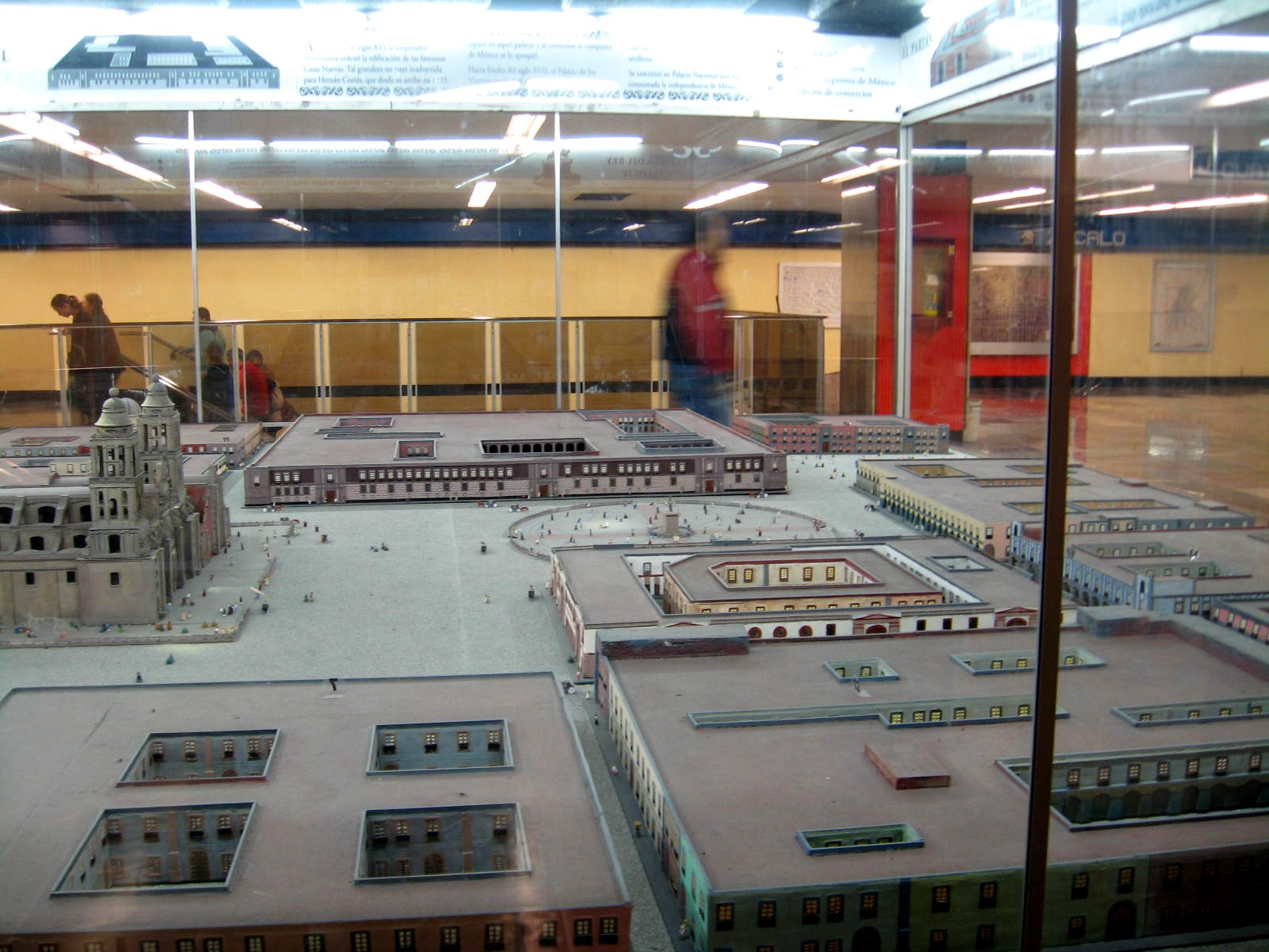 Model of Mexico City as it looked very early in the 19th century, focusing on the Zocalo. In Metro station Zocalo